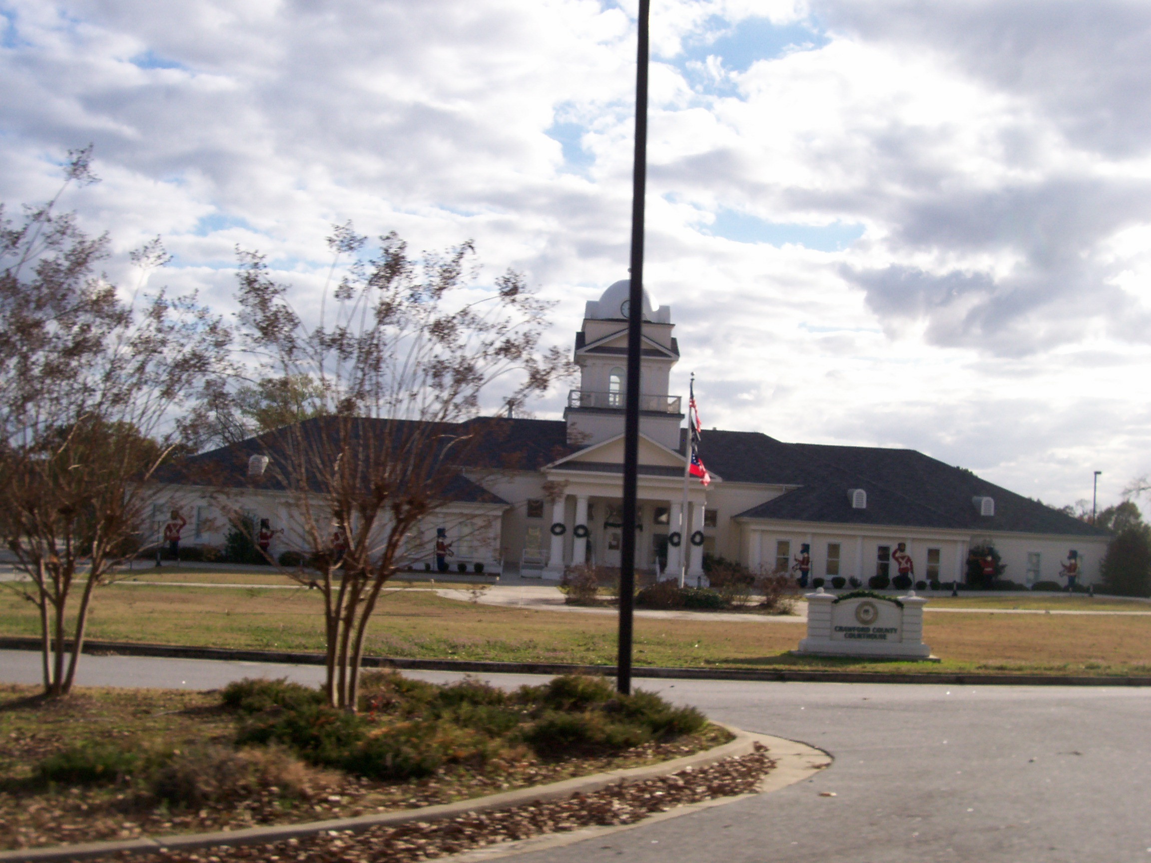 The New Crawford County Courthouse in Knoxville, Georgia, with that stupid poll that just HAAAD to get in there.